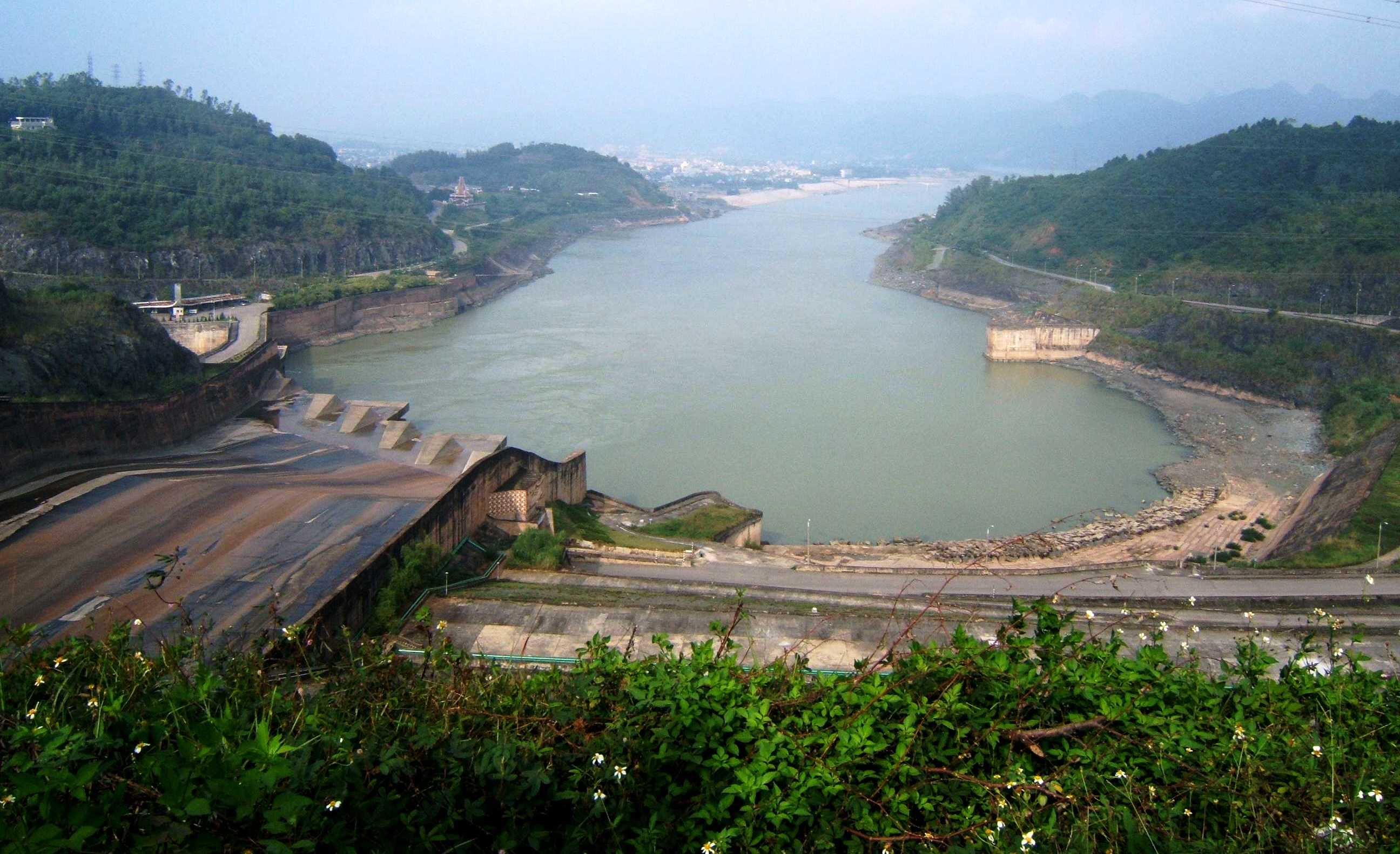 Hoabinh Dam in Vietnam, a barrier to asian carp in the way to reproducing.